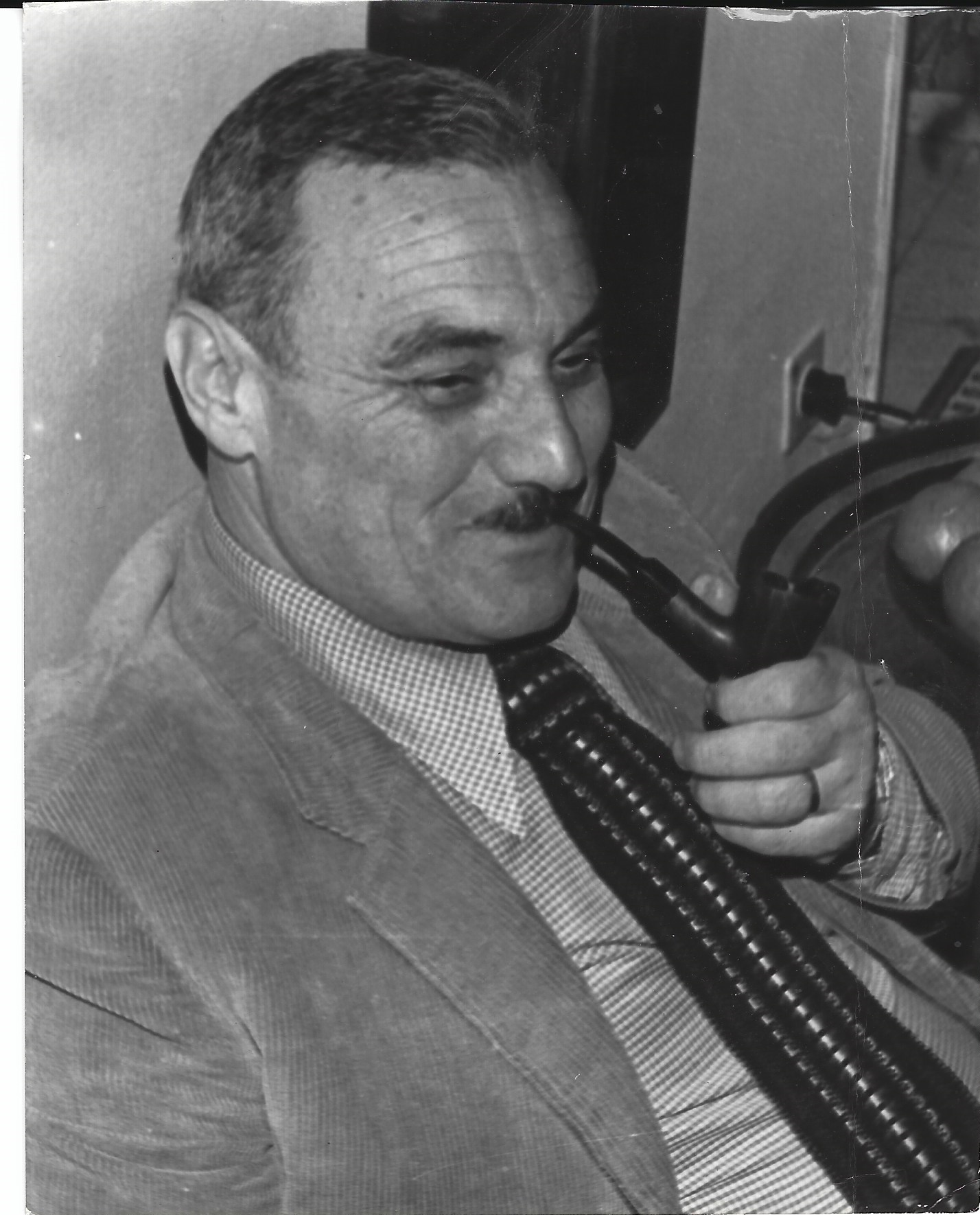 Hebrew poet and author Aharon Amir, circa 1975